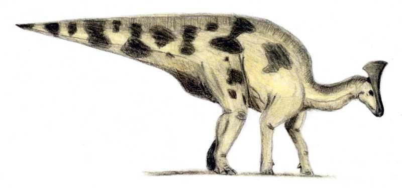 Olorotitan, pencil drawing Author:User:ArthurWeasley